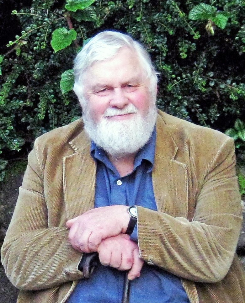 Robin Amis at Three Barns, Devon, England.